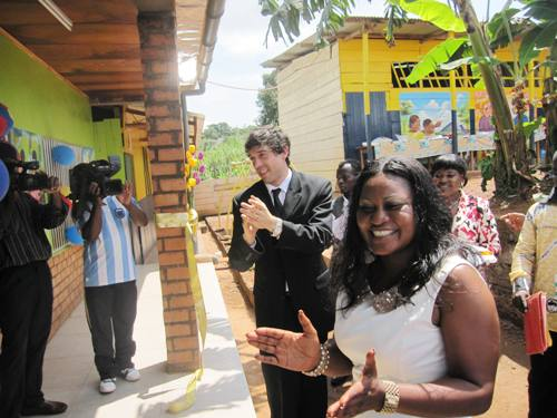 US Embassy officer Luke Ortega inaugurates new classroom at BLIS Cameroon